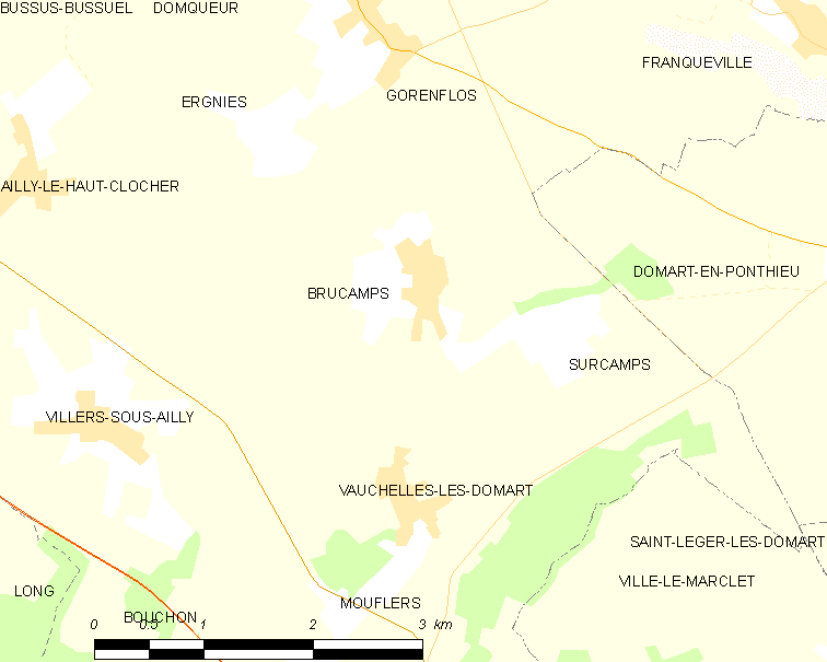 Map of French municipality Brucamps